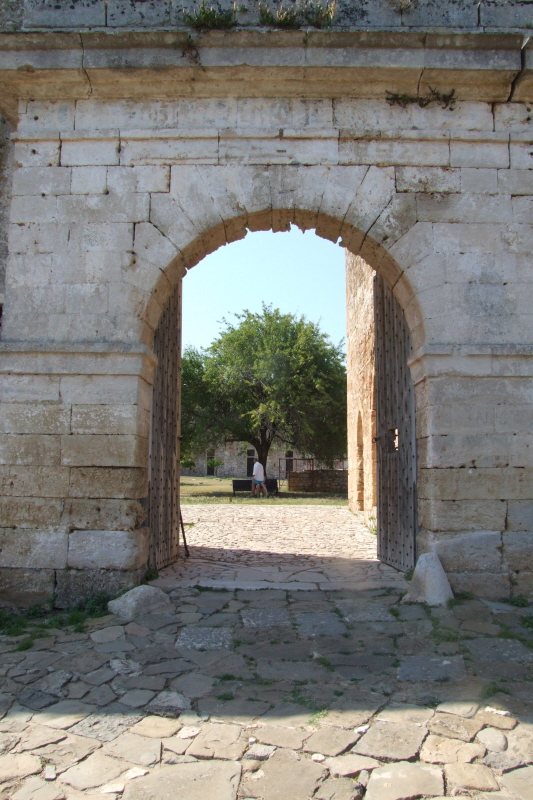 fortress from Pylos